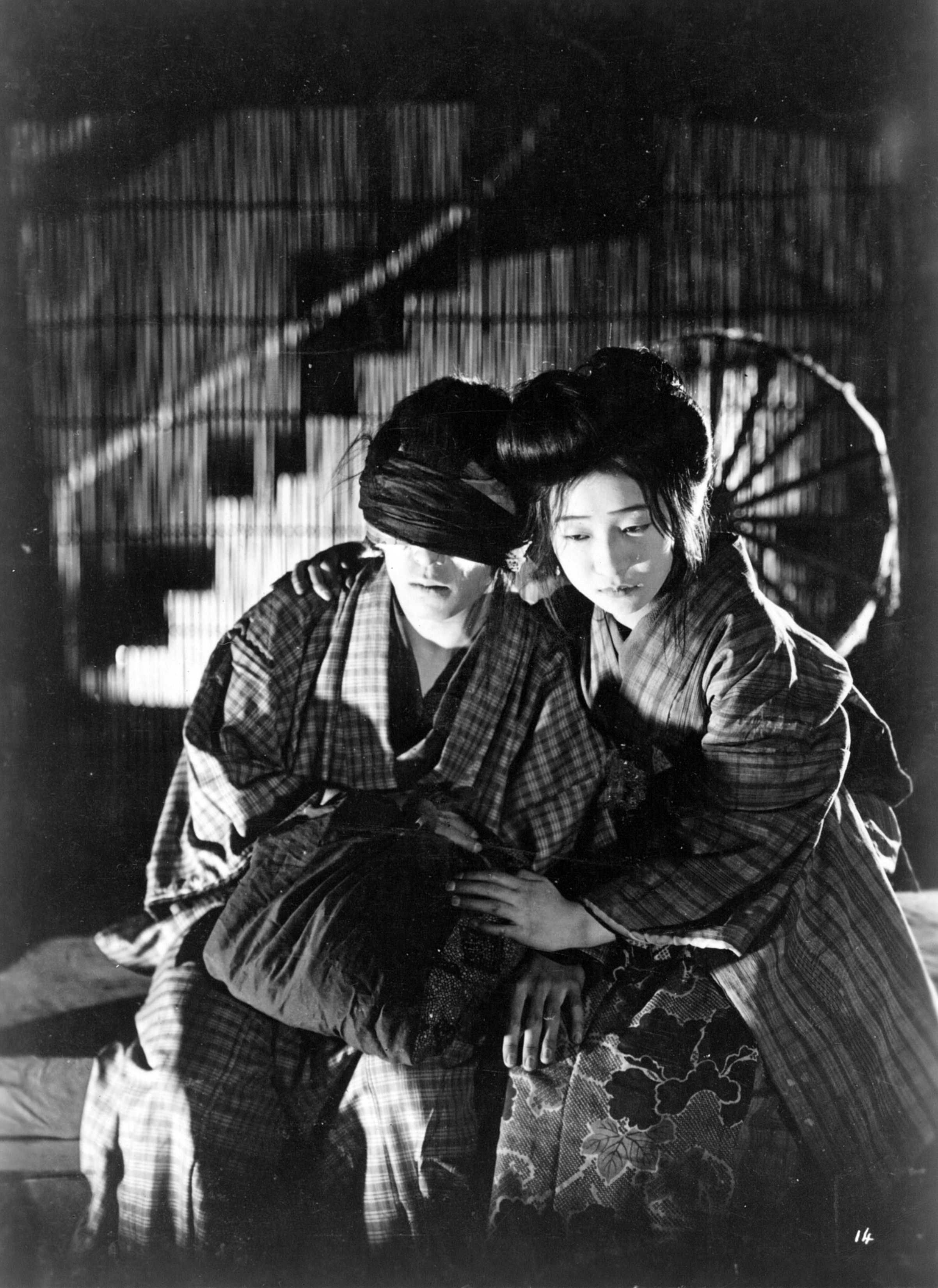 Junosuke Bandō and Akiko Chihaya in Jūjiro (十字路) directed by Teinosuke Kinugasa - 1928